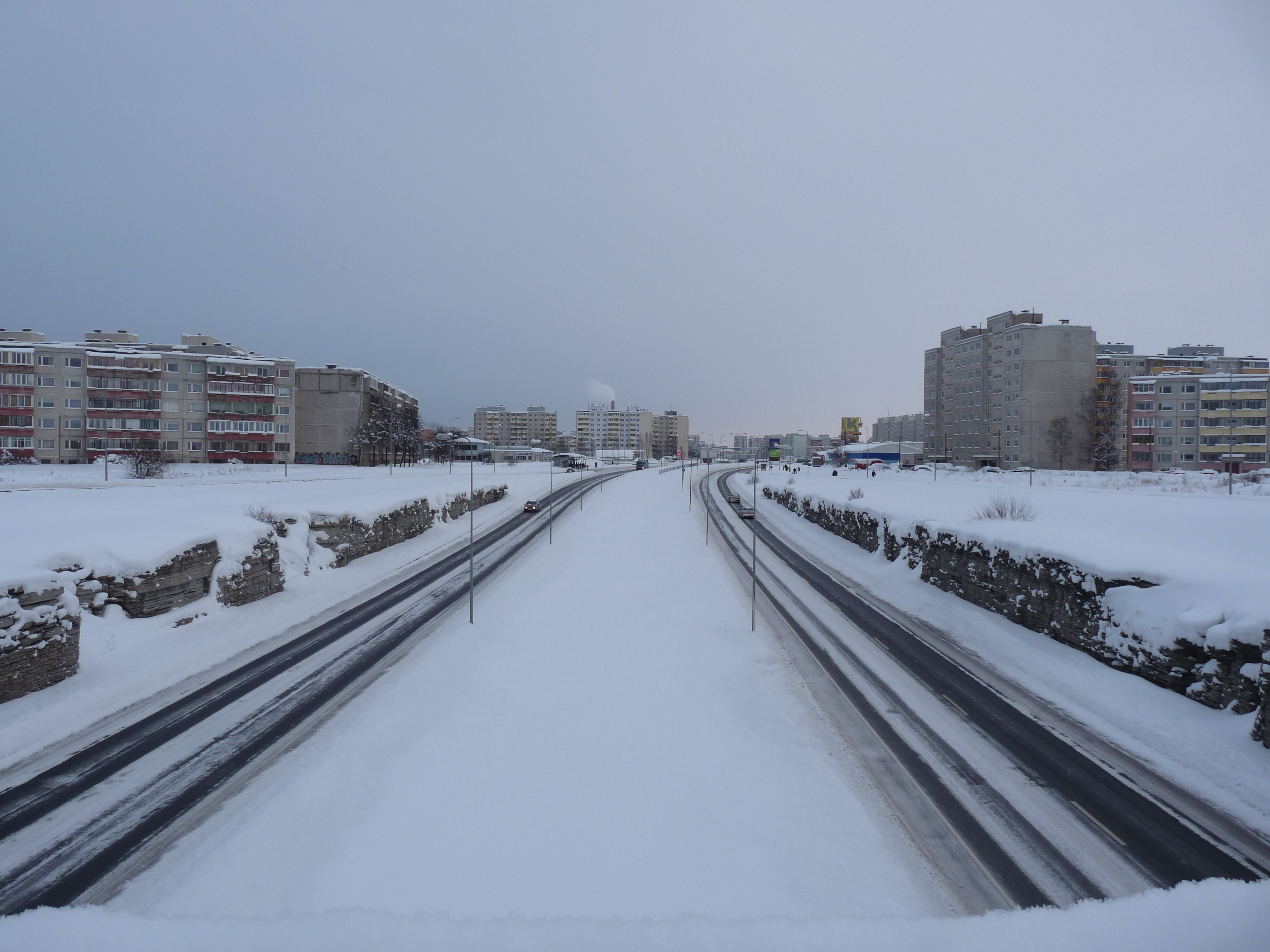 Mustakivi subdistrict in Tallinn.